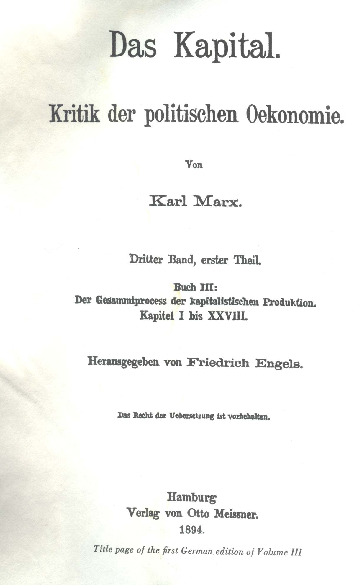 Das Kapital, Book III